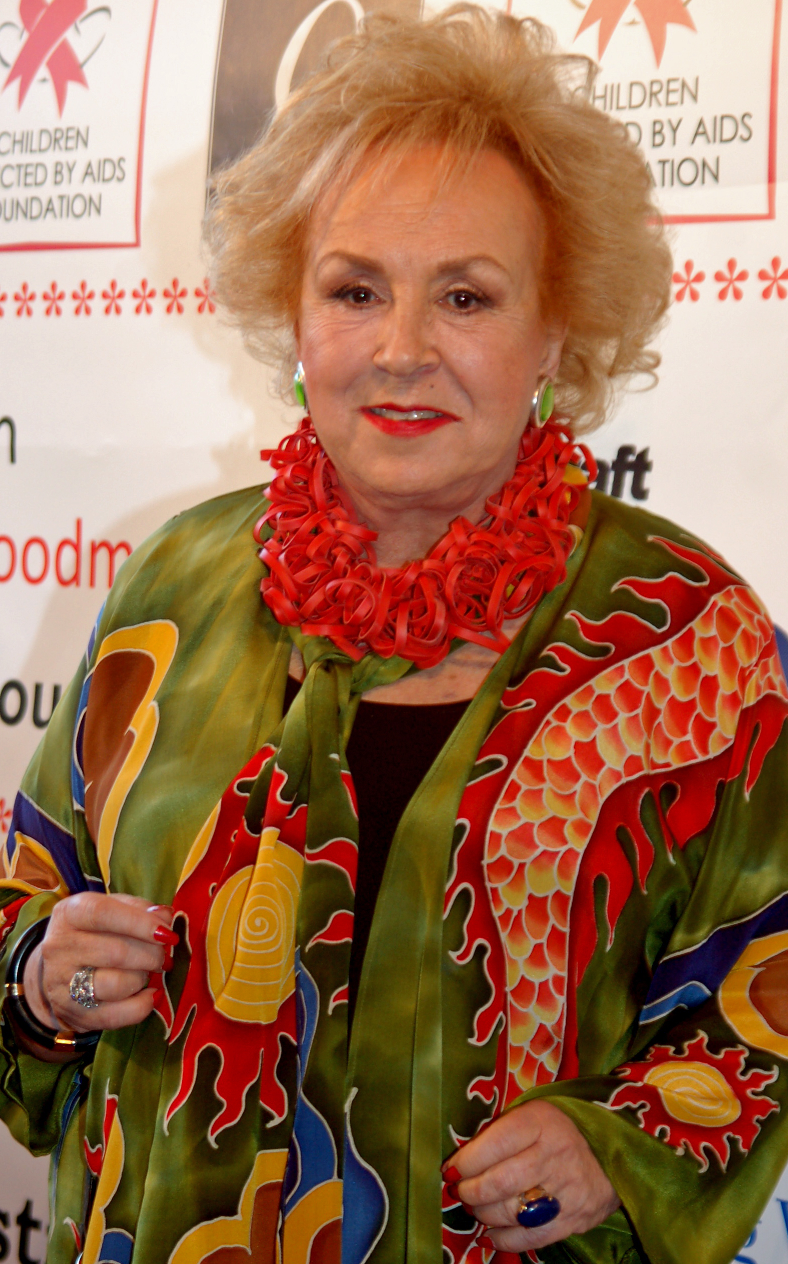 Doris Roberts at the Night of Comedy 9 benefit to support the Children Affected by AIDS Foundation (CAAF) in Beverly Hills, California.